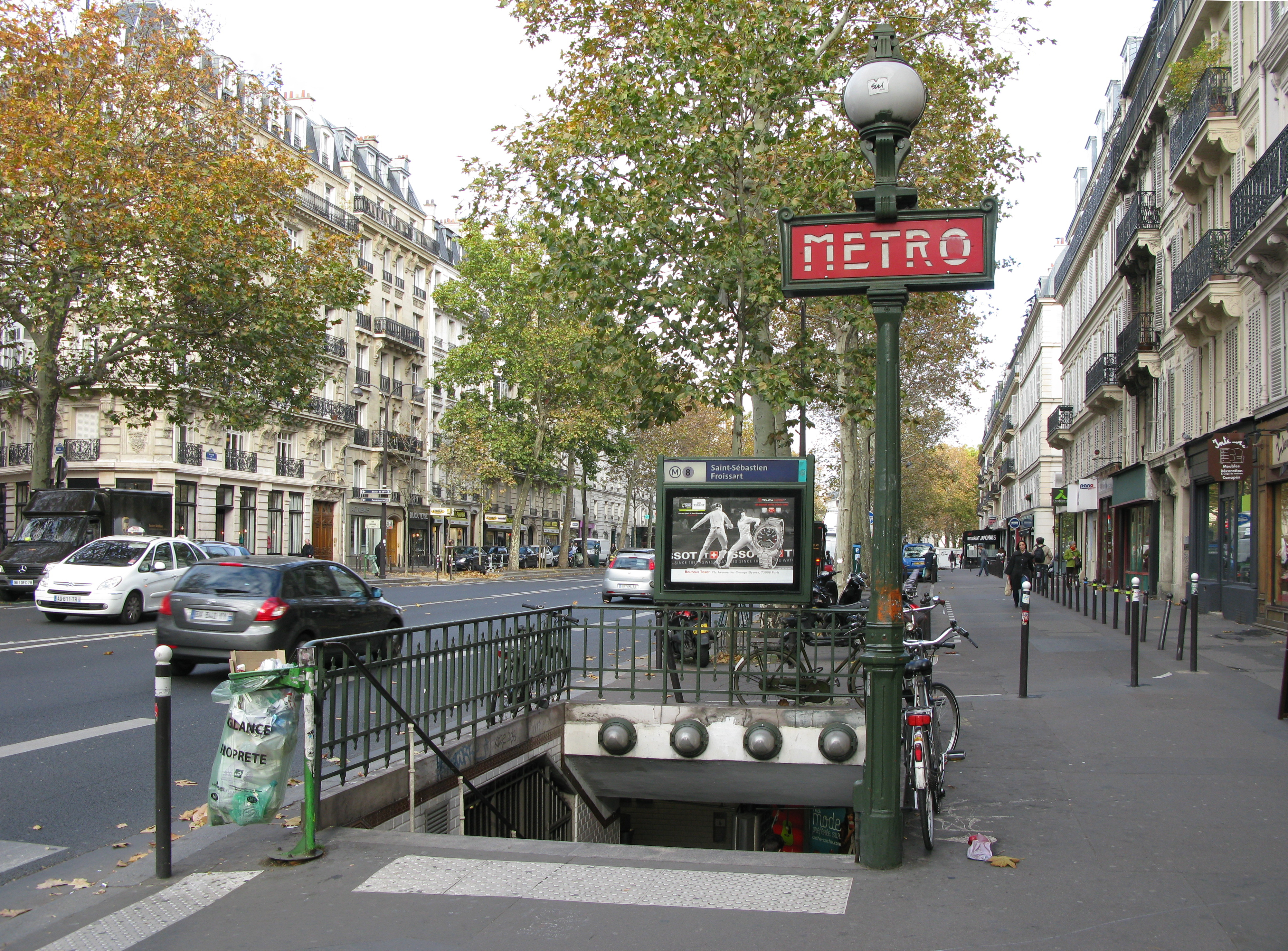 Subway station Saint-Sébastien-Froissart, line 8, exit Saint-Sébastien, Beaumarchais boulevard, Paris.